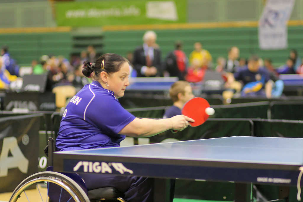 Photo by Gaël Marziou